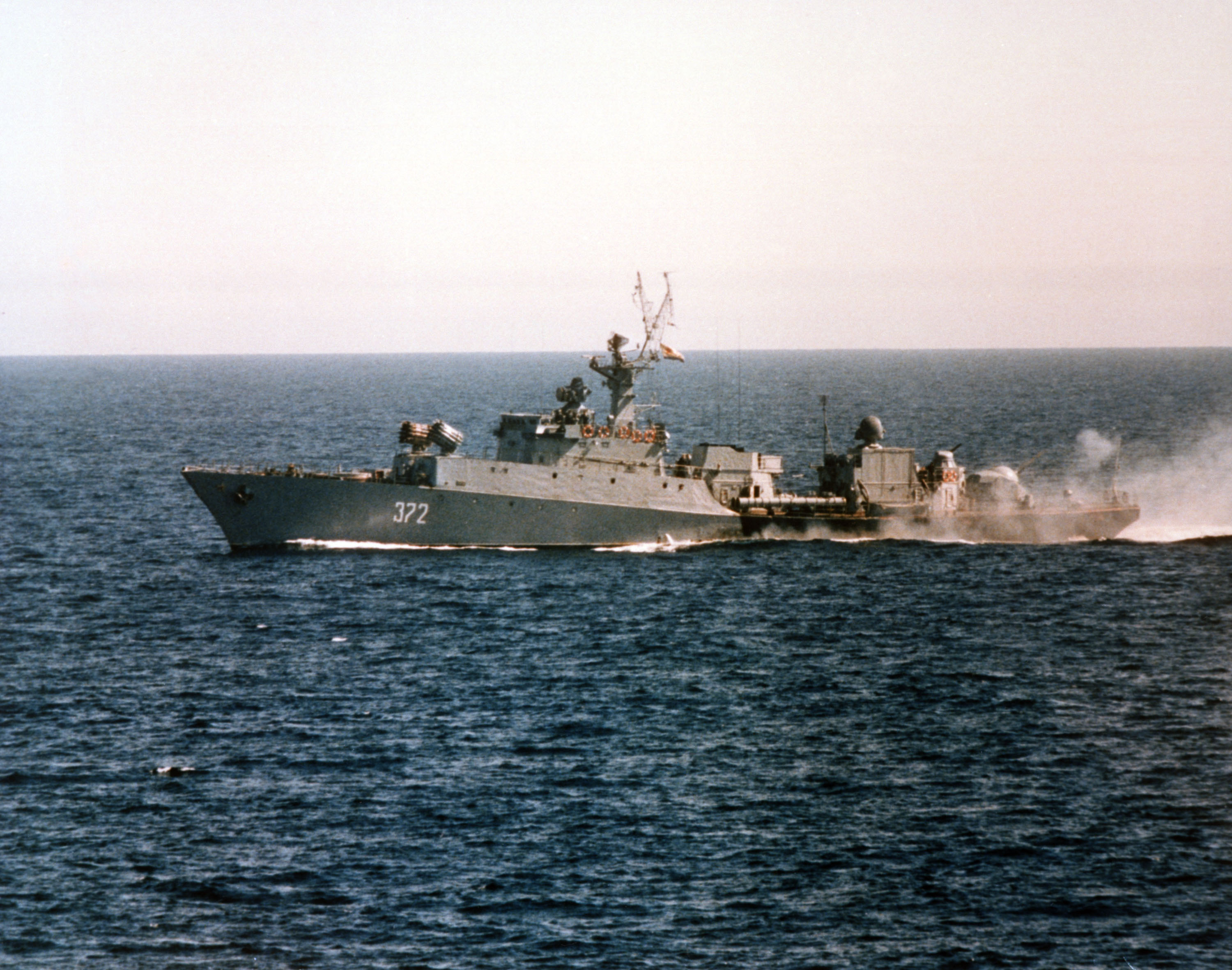 A port bow view of the Soviet project 1124 (NATO code Grisha III-class) small ASW ship MPK-170 underway.